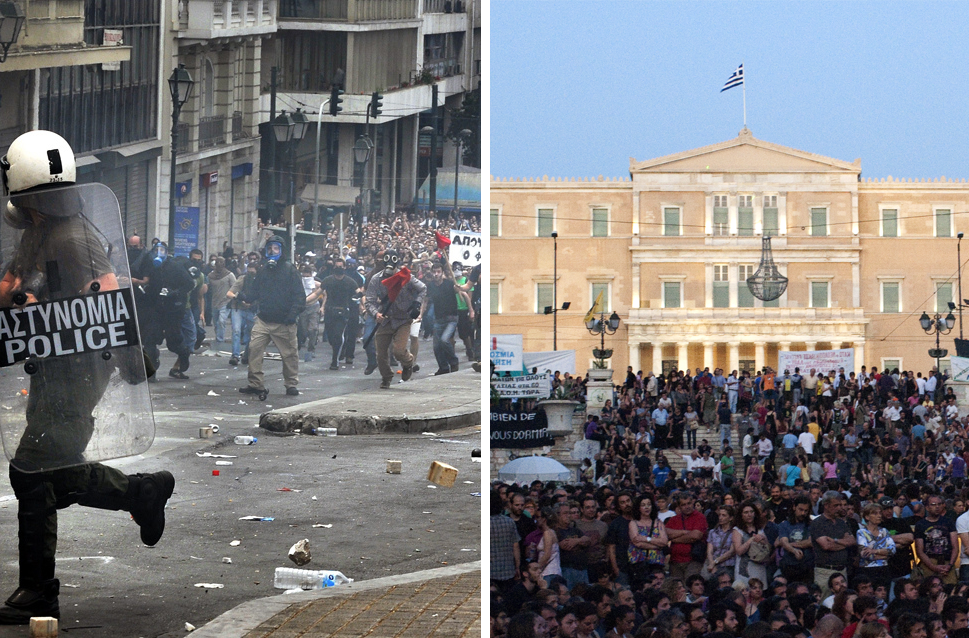 The protests of 2010 were violent wheras the protests of 2011 have been peaceful for the most part.